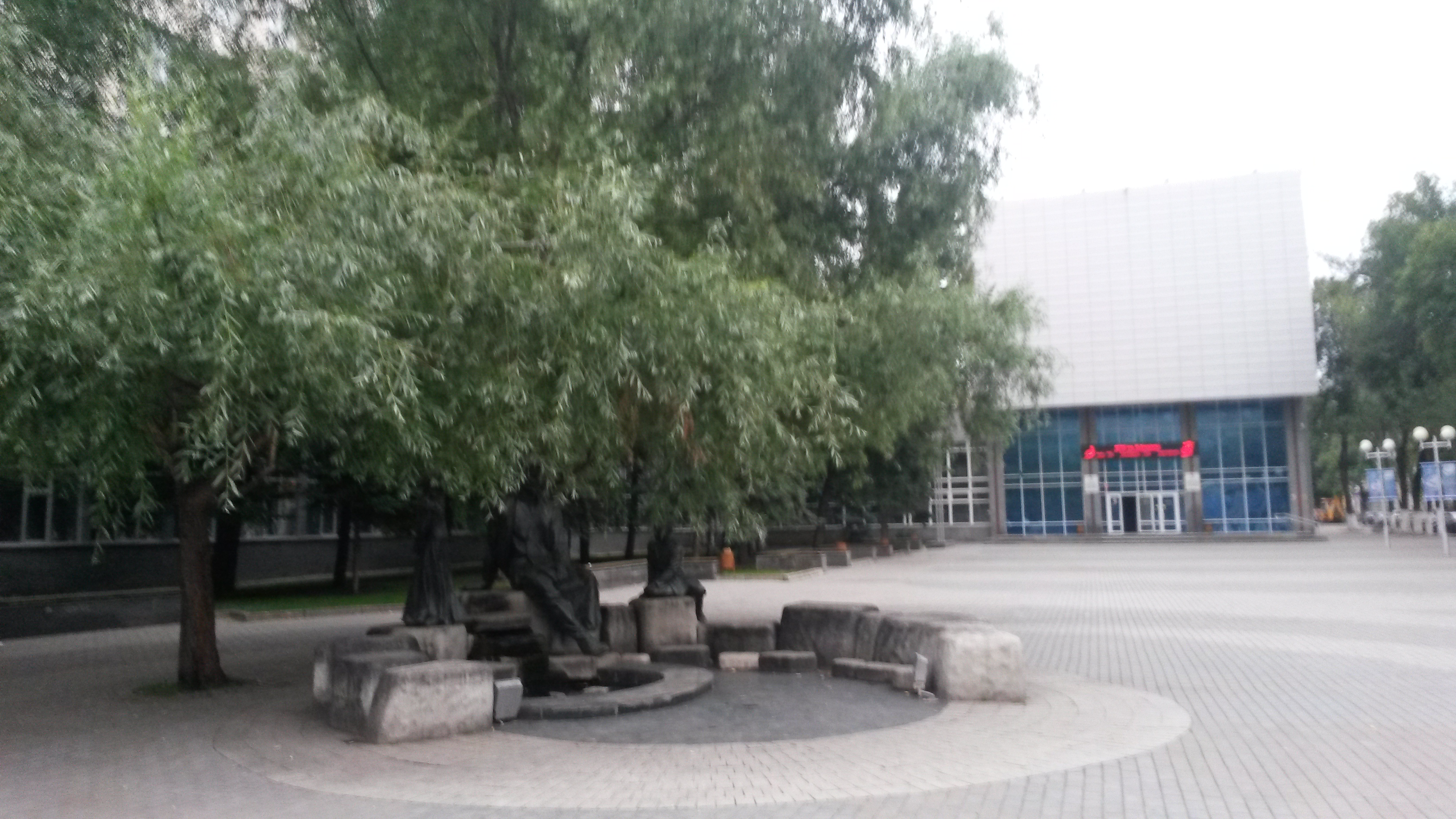 Monuments and memorials in Ufa